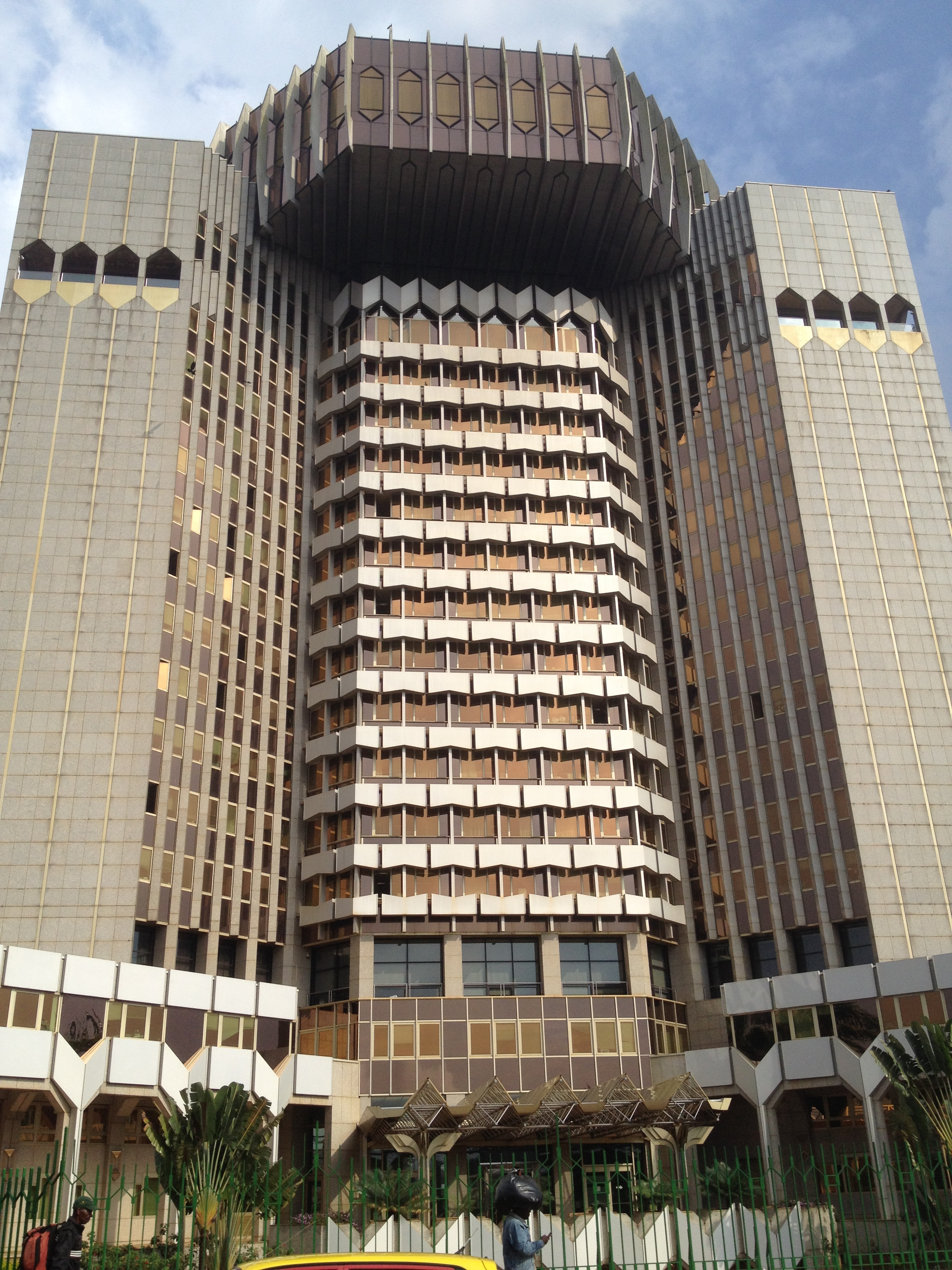 The head office of the Bank of Central African States in Yaoundé.